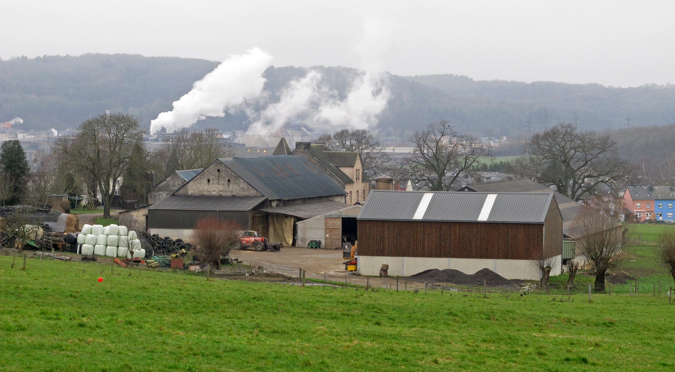 The farm Scheierhaff near Belvaux